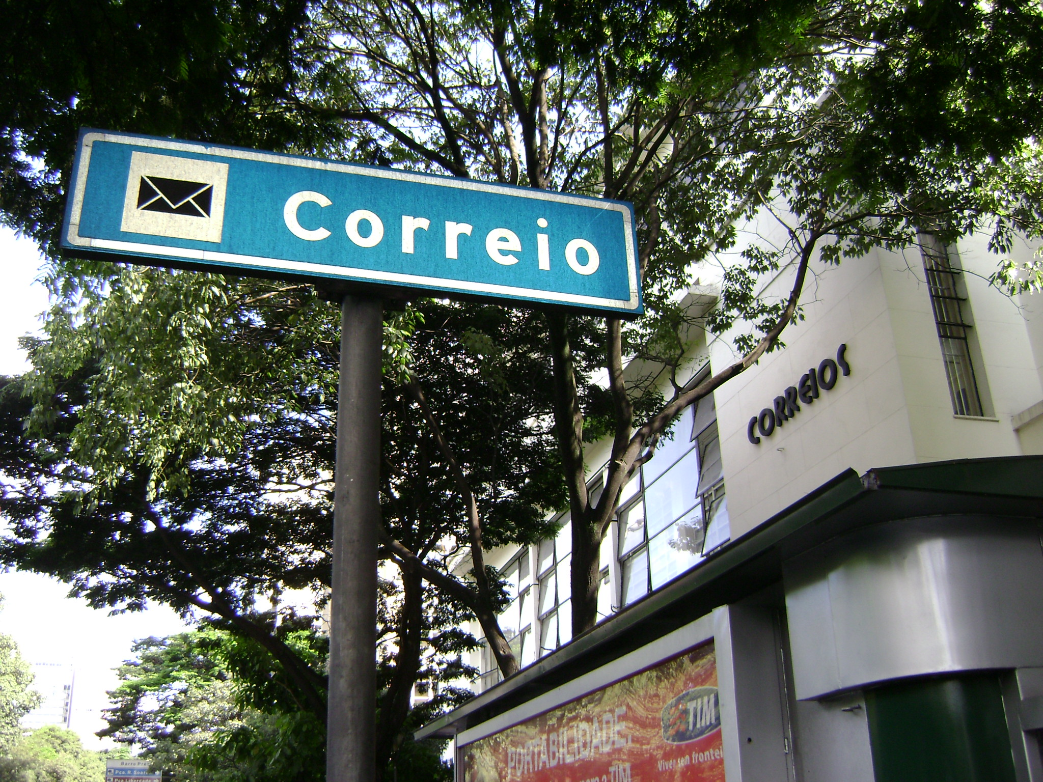 Correios, in Belo Horizonte.